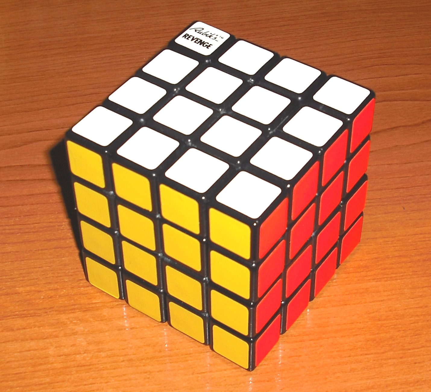 Rubik's Revenge 1982